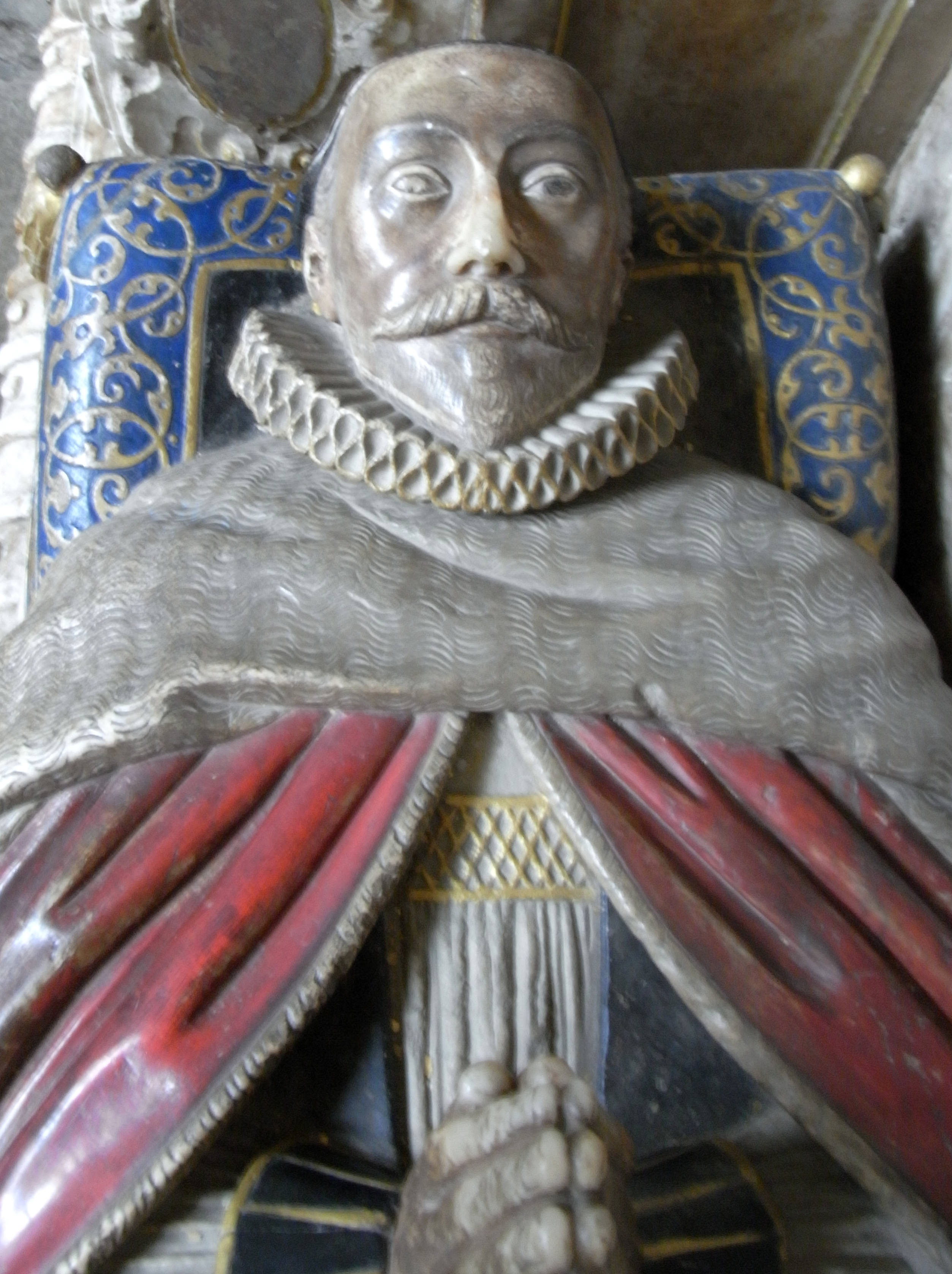 Effigy of Valentine Cary (d.1626), Bishop of Exeter, detail from his munument in Exeter Cathedral, north aisle.